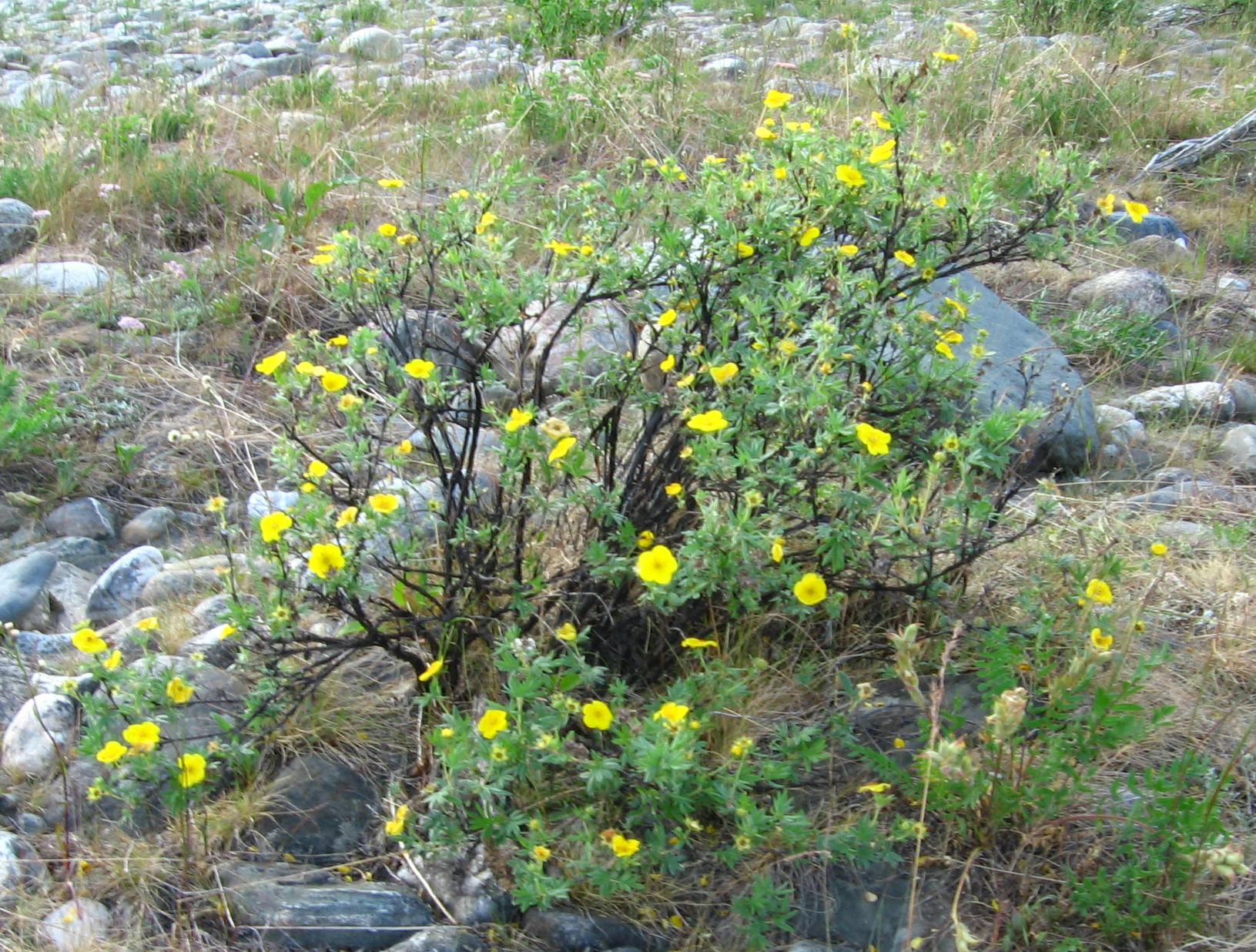 Dasiphora fruticosa subsp. fruticosa, Berezovsky, Khanty-Mansiyskiy Autonomous Okrug, 64°17'47"N 60°54'10"E.